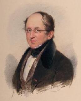 coloured pencin drawing of Ludwig Philipp von Bombelles (1780-1843), Austrian diplomat